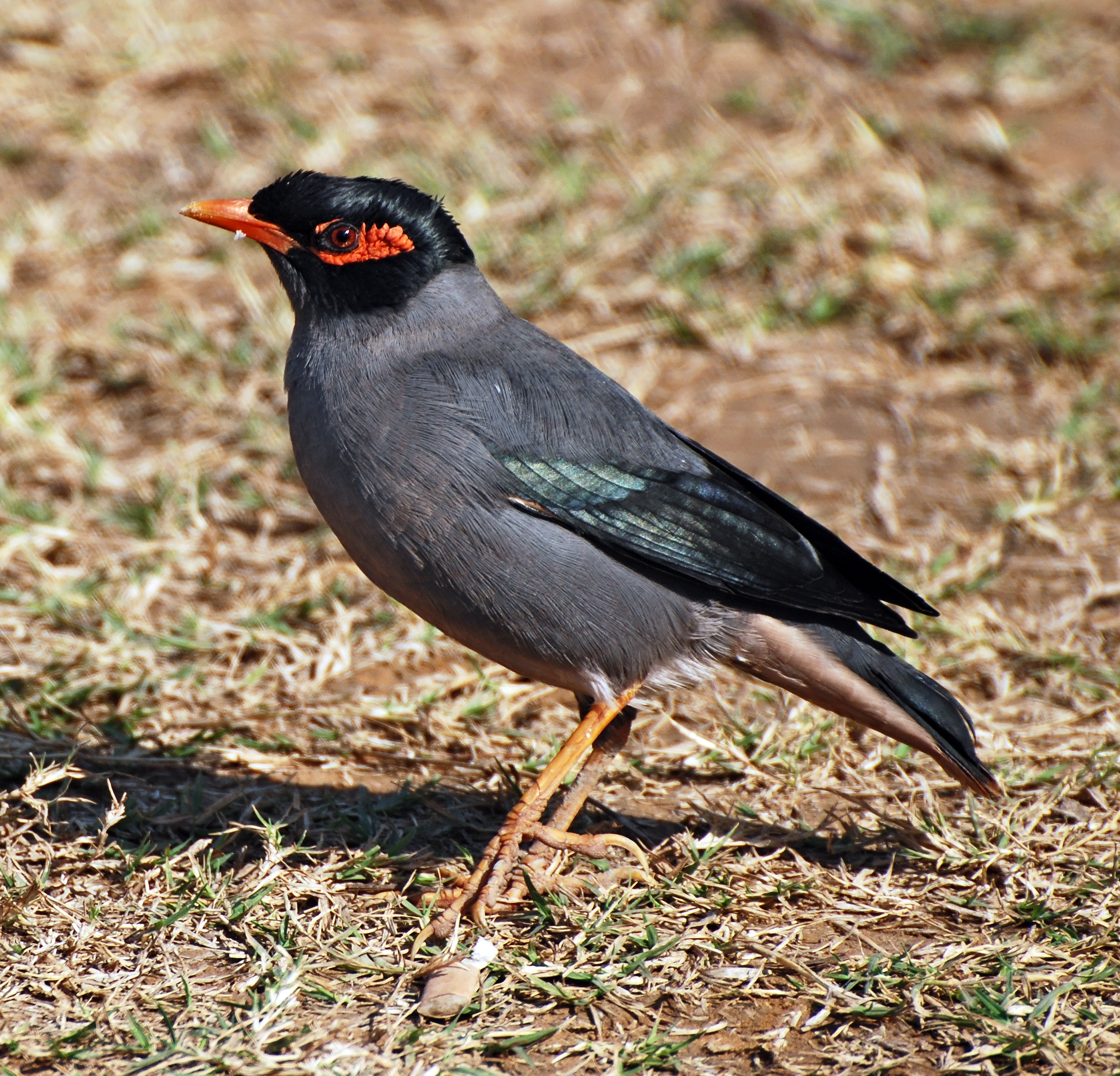 Bank Myna (Acridotheres ginginianus), near Bharatpur, northern India